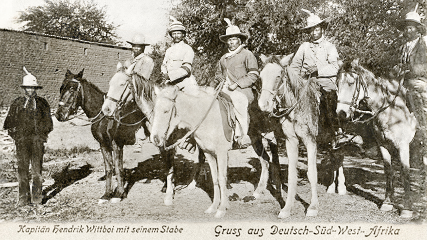 Nama - Chief Hendrik Witbooi (center) and his companions